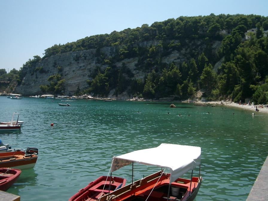 Alonissos - Northern Sporades - Greece